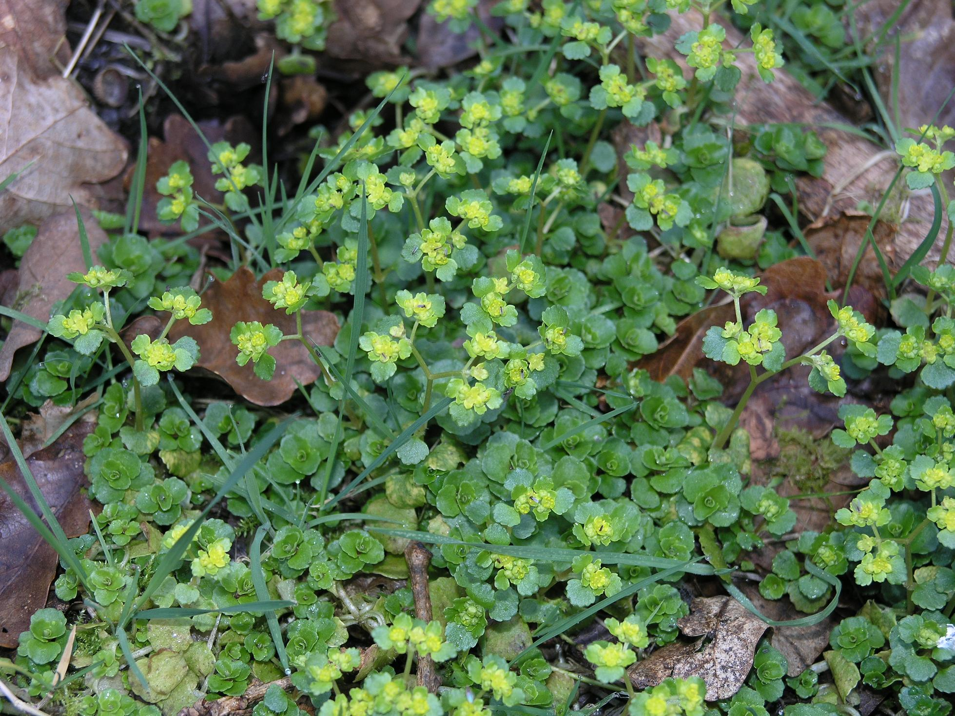 Chrysosplenium oppositifolium growing in wet alder forest near Garstang, Lancashire, England.